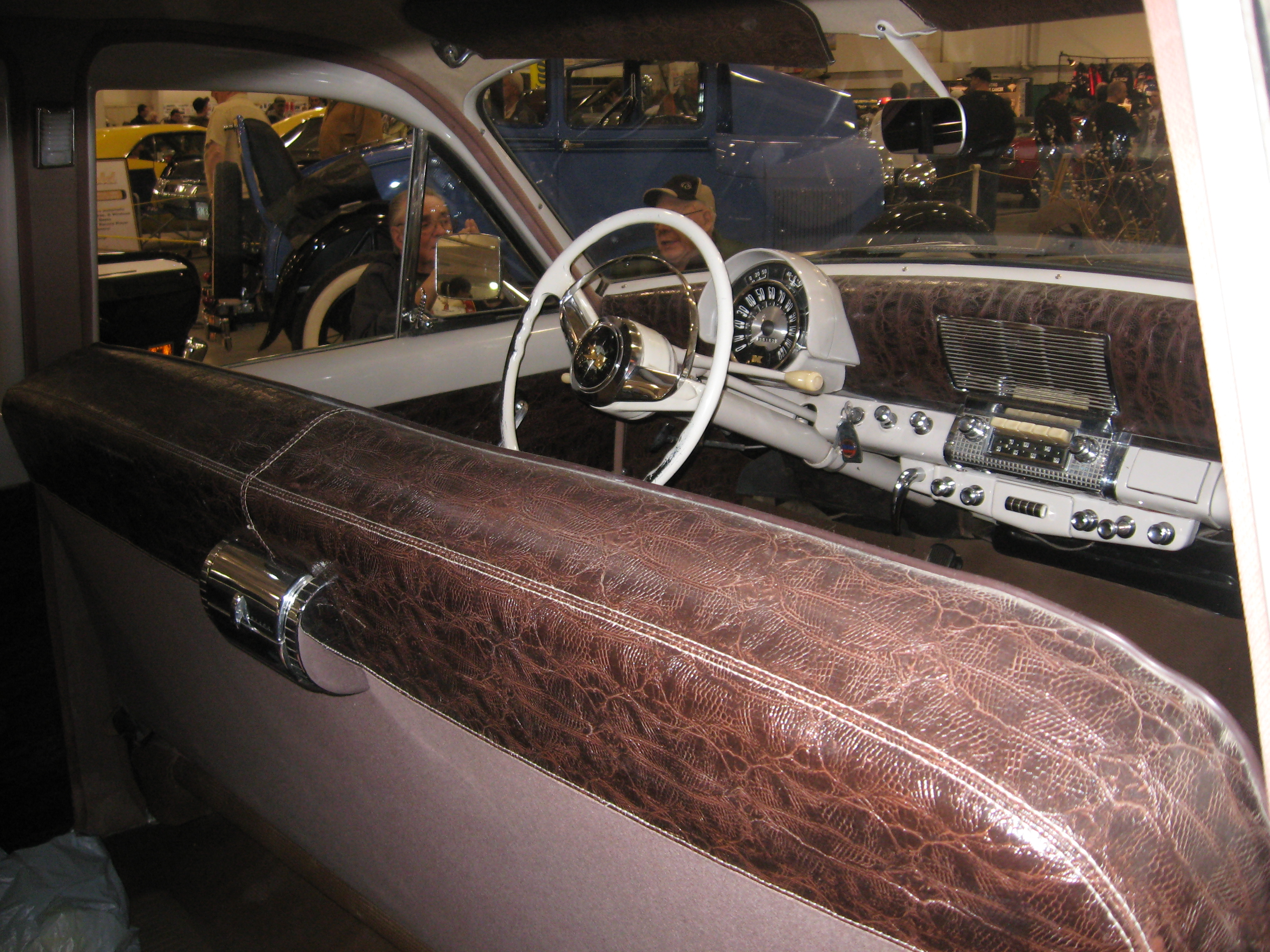 '53 Kaiser Custom 6 interior, shot at 50h Anniversary Draggins car show, Praireland Exhibition, Saskatoon, 3 April 2010